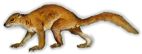 Plesiadapis